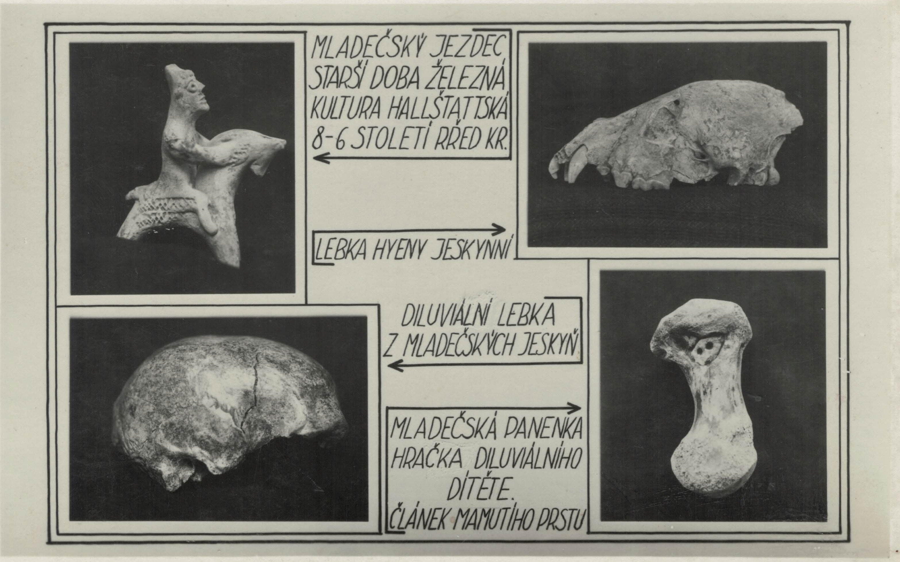 Archaeological findings from Mladeč caves which used to be part of the collections of the Museum Litovel.